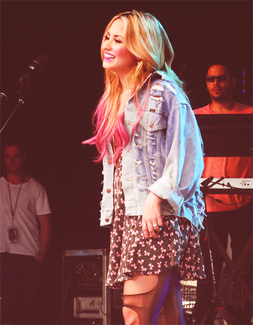 pretty demi